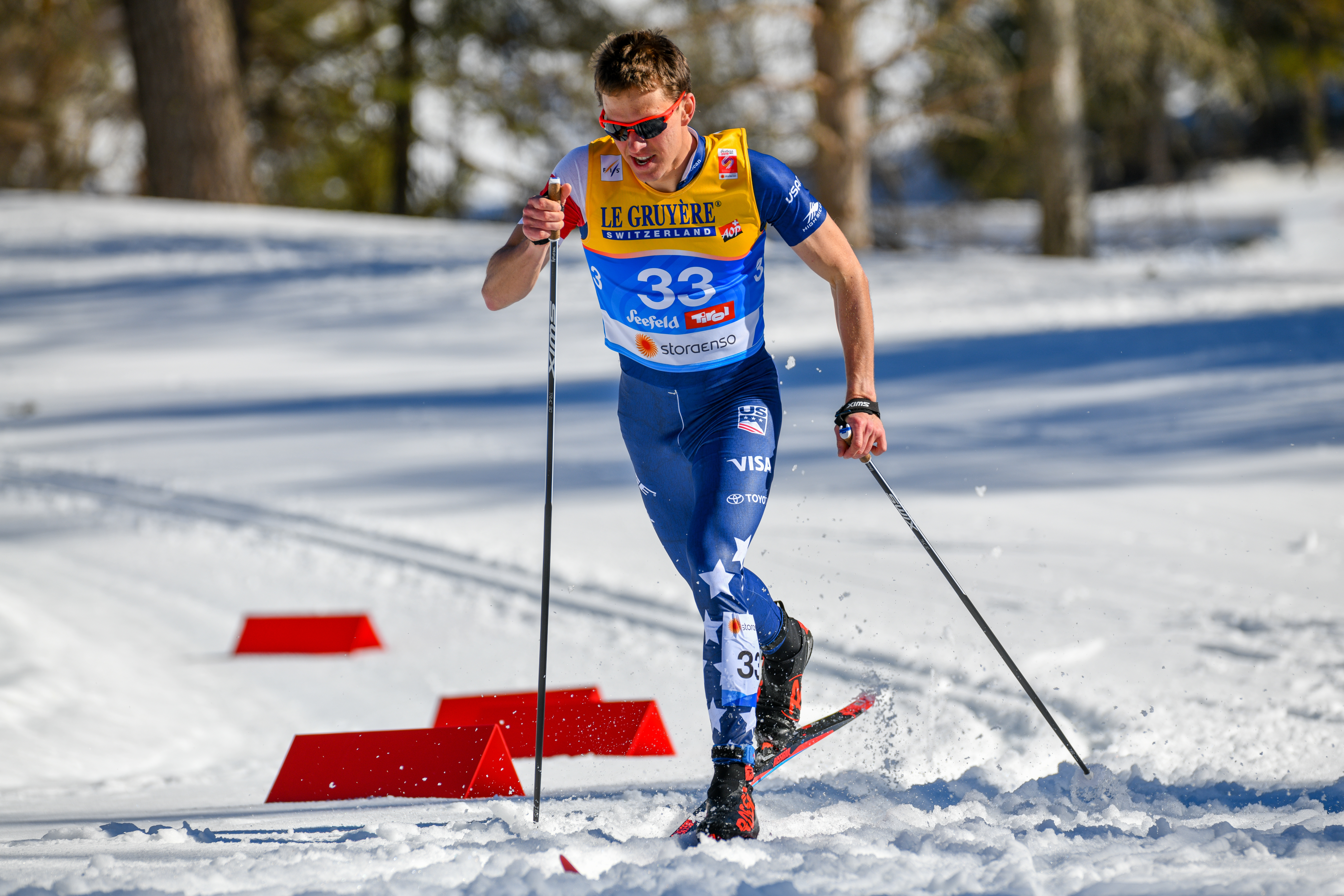 FIS Nordic Wolrd Ski Championships Seefeld 2019 - Men 15km Interval Start Classic. Picture shows Scott Patterson (USA).